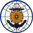 Ministry of Transport seal မြန်မာဘာသာ: ပို့ဆောင်ရေးဝန်ကြီးဌာနတံဆိပ်